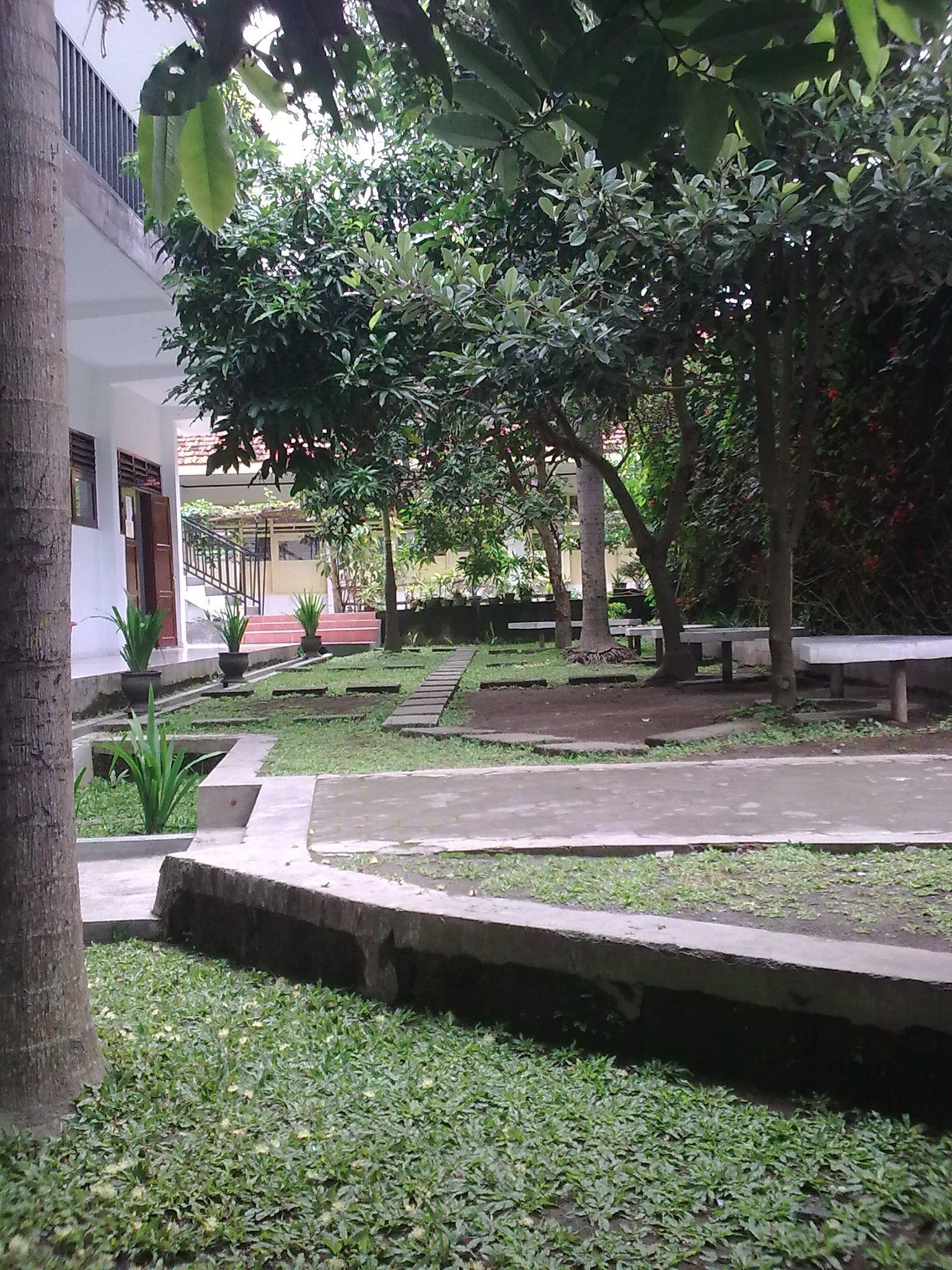 Taman yang cukup nyaman untuk berkumpul Siswa. Terdapat Burung-Burung Indah yang Hidup di Taman ini.